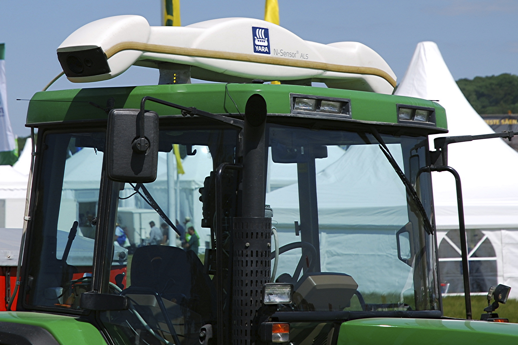 Yara N-Sensor ALS (ALS = active light source, Xenon flash lamps for night work) mounted on the canopy of a John Deere tractor; presented at the DLG field days 2010, Gut Bockerode, Springe-Mittelrode, Lower Saxony, Germany. – This sensor system 1) scans the crops roughly 5 to 6 metres left and right of the tractor lane, records the light reflection of the plants as an indicator of their current nitrogen uptake, 2) translates the measured data (by using a special software) into fertilisation recommendations, which then 3) are used by the applicator to vary the actually needed amount of fertiliser spread.